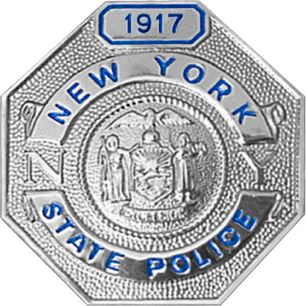 Image is similar, if not identical, to the New York State Police badge. Made with Photoshop.